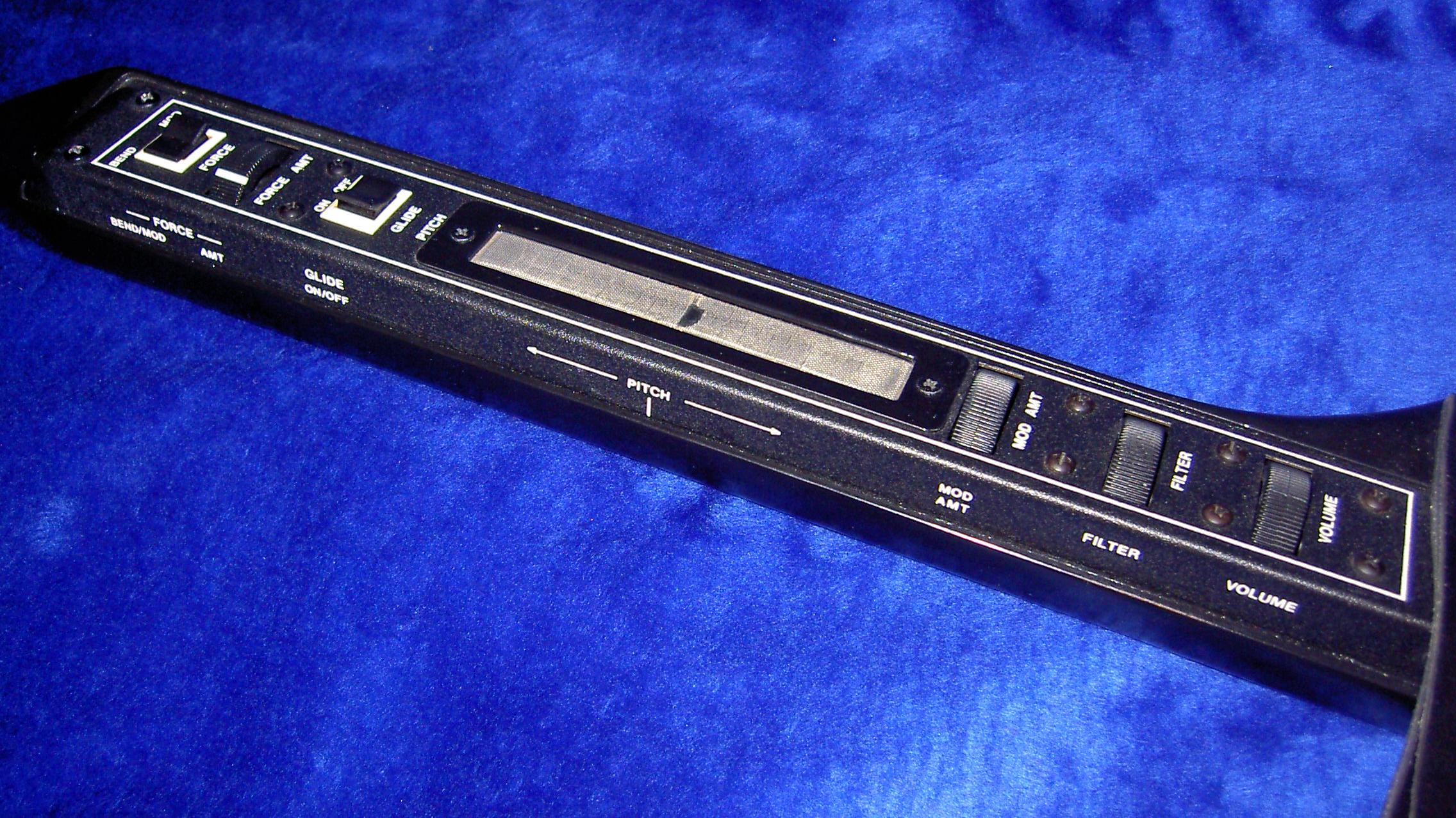 Moog Liberation Guitarneck